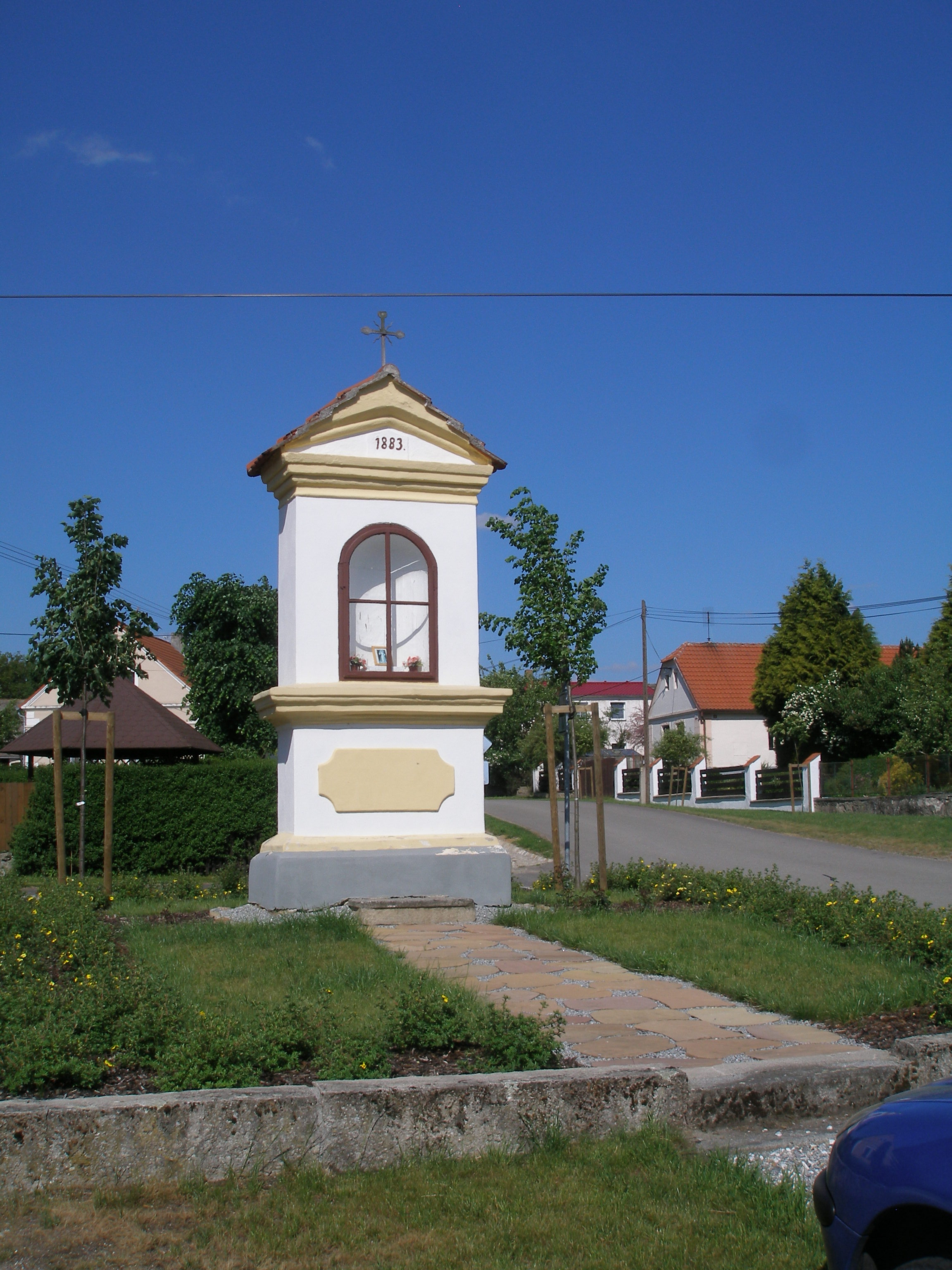 Újezdec - the chapel on the square